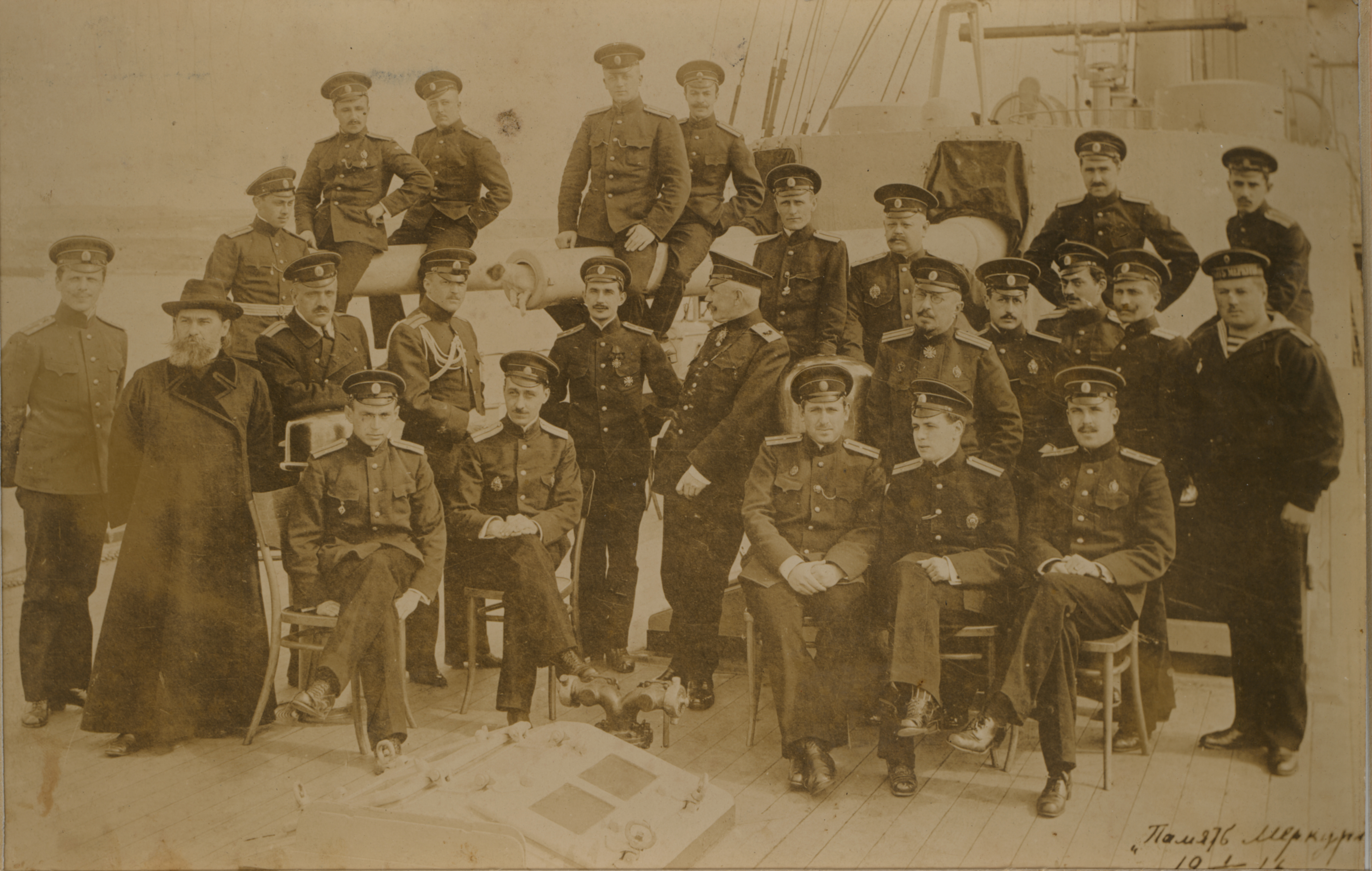 Officers from cruiser Pamyat' Merkuriya in spring 1915―1916.